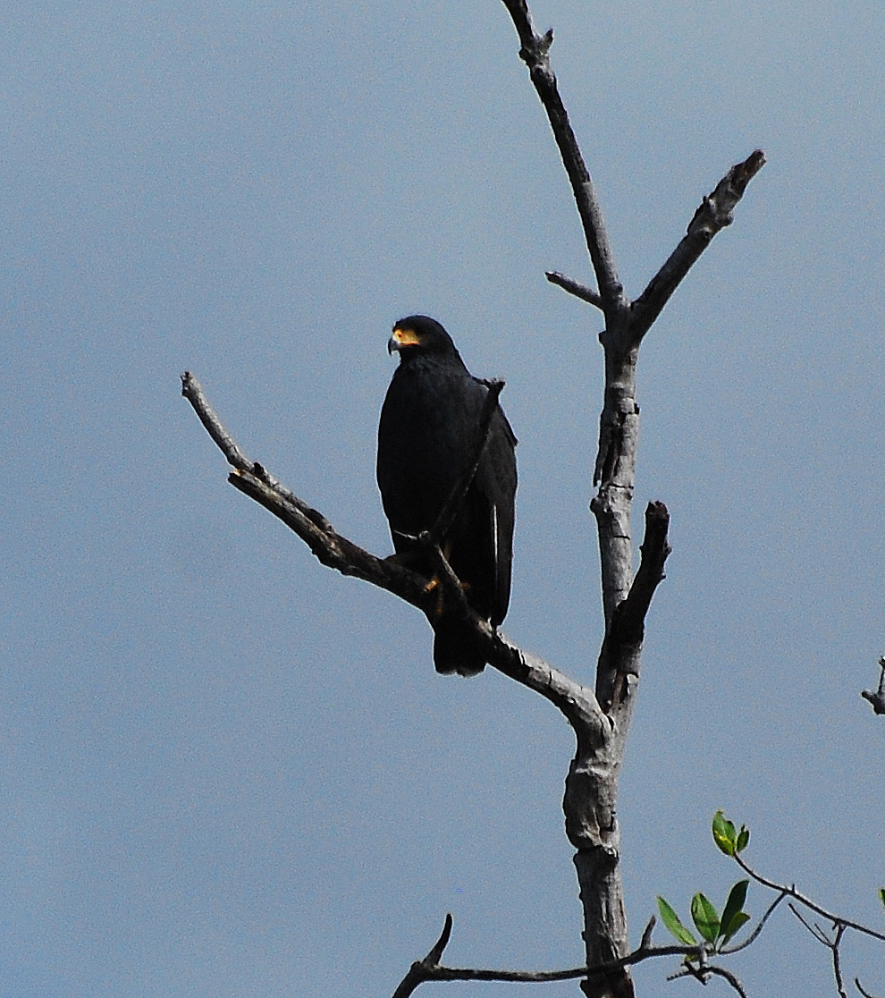 Common Black Hawk (Buteogallus anthracinus anthracinus) on the Bay of Nicoya, Costa Rica, 080222. Note that confusion over range and features of the the subspecies Mangrove Black Hawk has been recently solved. For more on this issue, see Mangrove Black-hawk on English wiki.